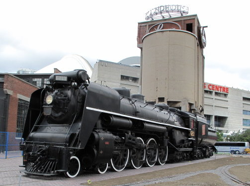 Canadian National 4-8-4 No. 6213 at Toronto